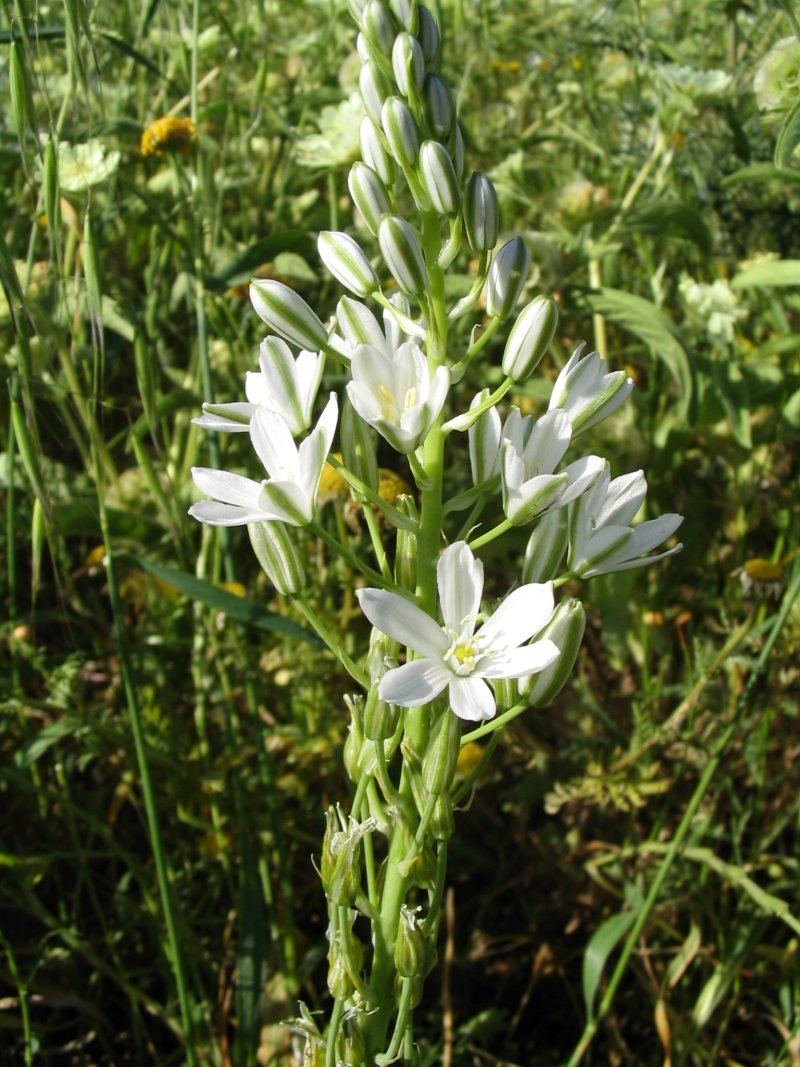 Ornithogalum narbonense - image taken on 12 April 2004, on the slopes of Mount Carmel, Israel.